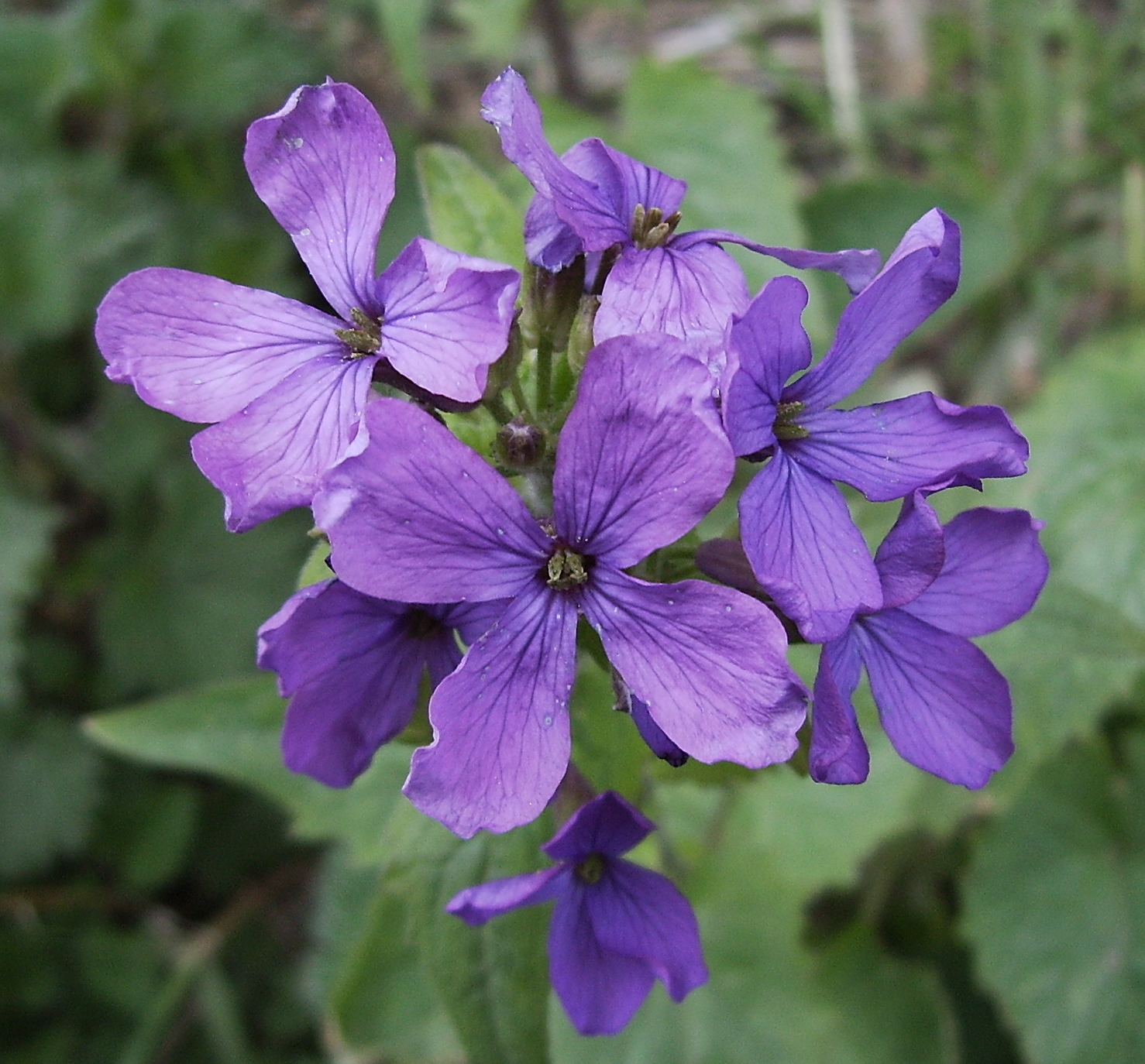 Lunaria annua flowers, Castelltallat, Catalonia